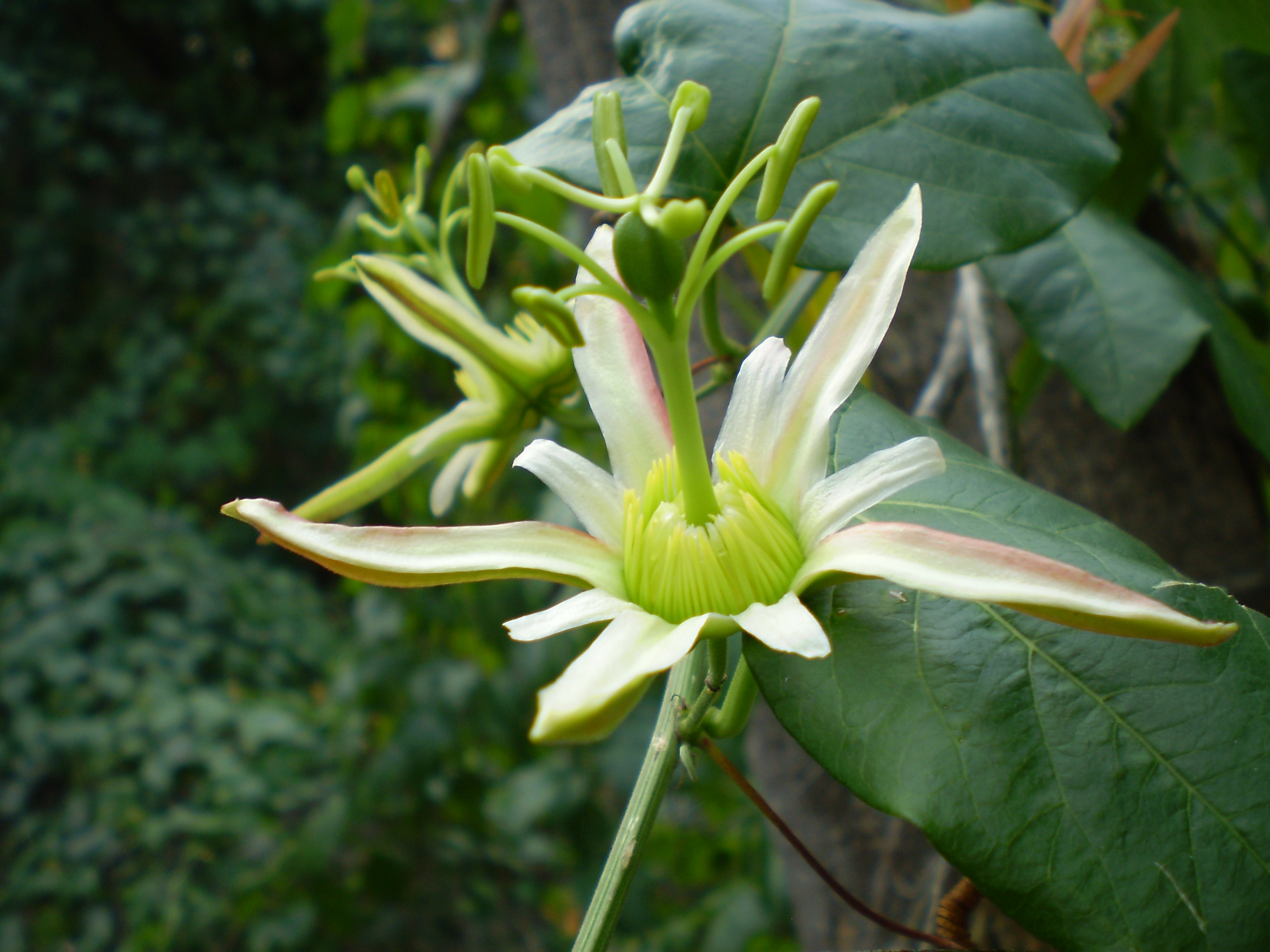 Passiflora herbertiana flower.